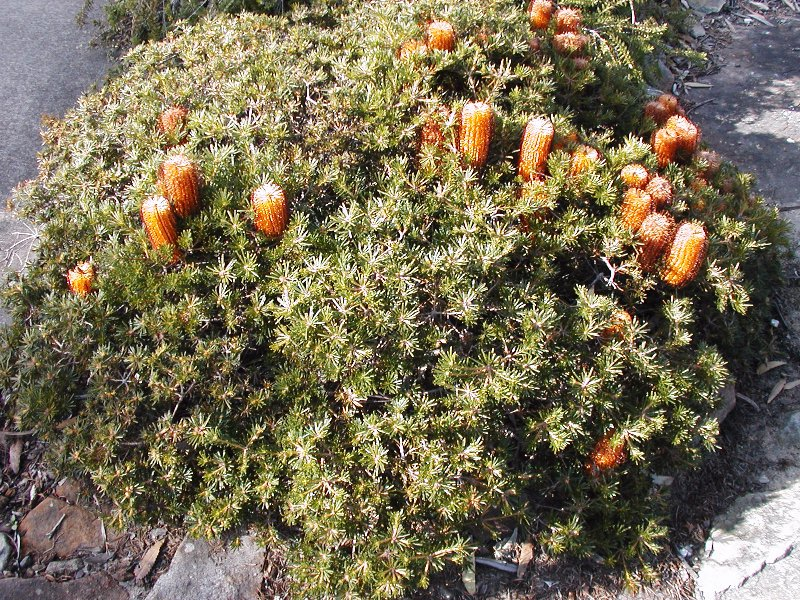 Banksia spinulosa, 'Coastal Cushion' cult. Kenthurst, NSW July 2004 photo - Cas Liber